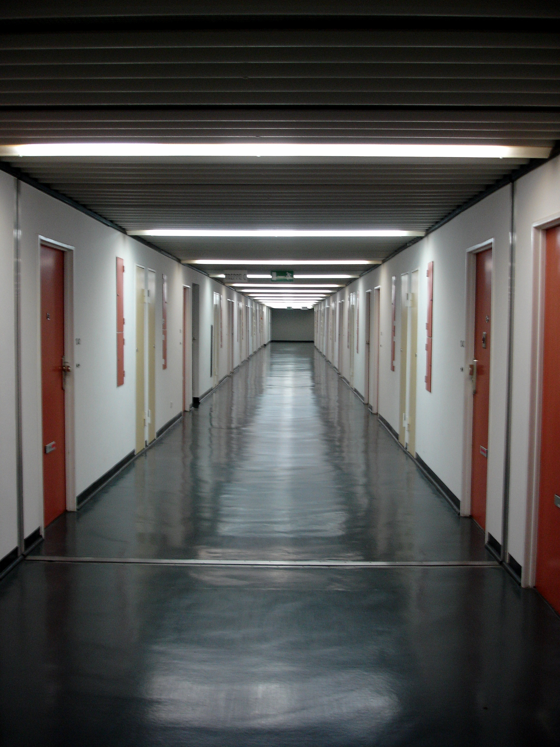 Le Corbusier Haus, Berlin